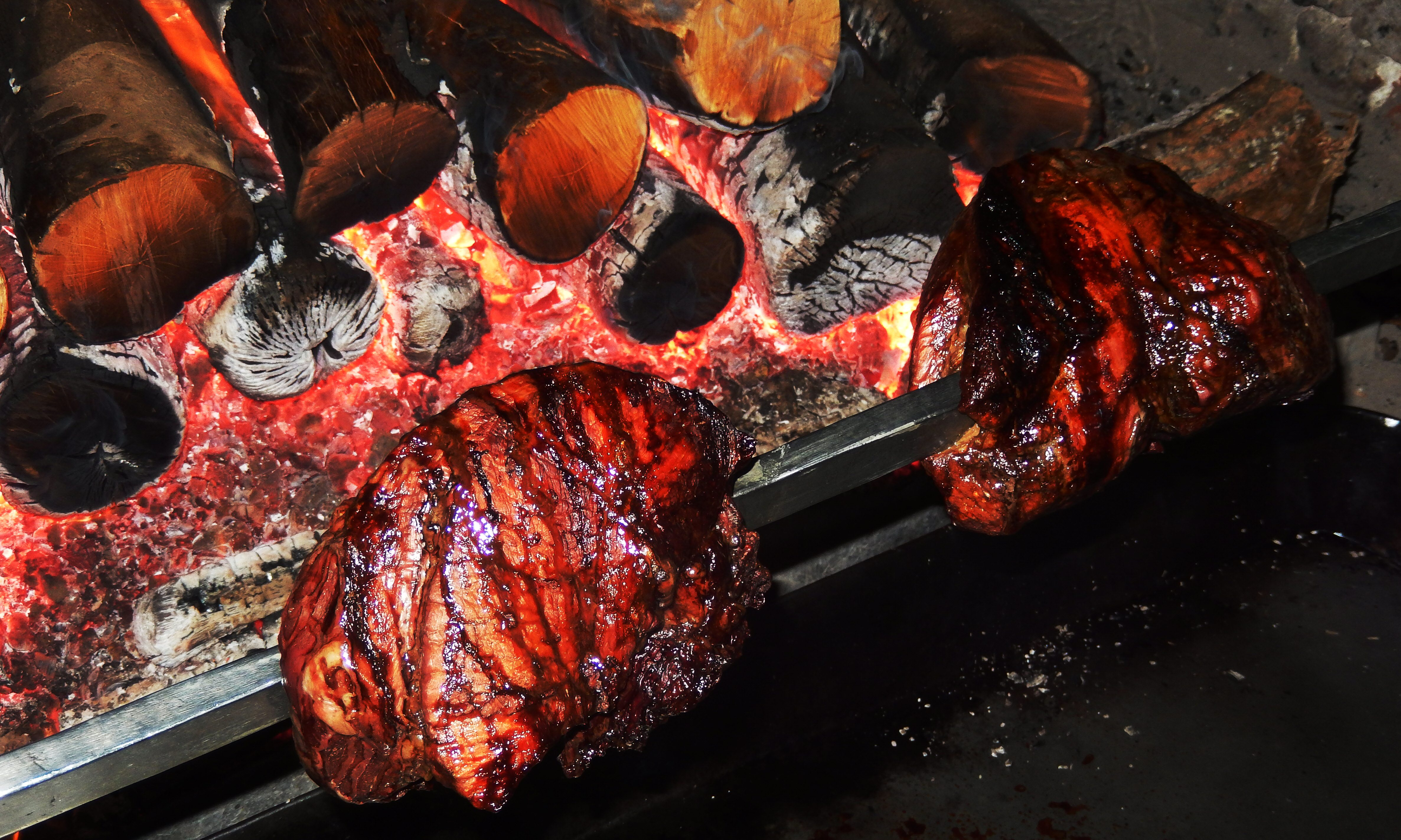 Meat being roasted on a spit in Tudor style in the Great Kitchens at Hampton Court Palace